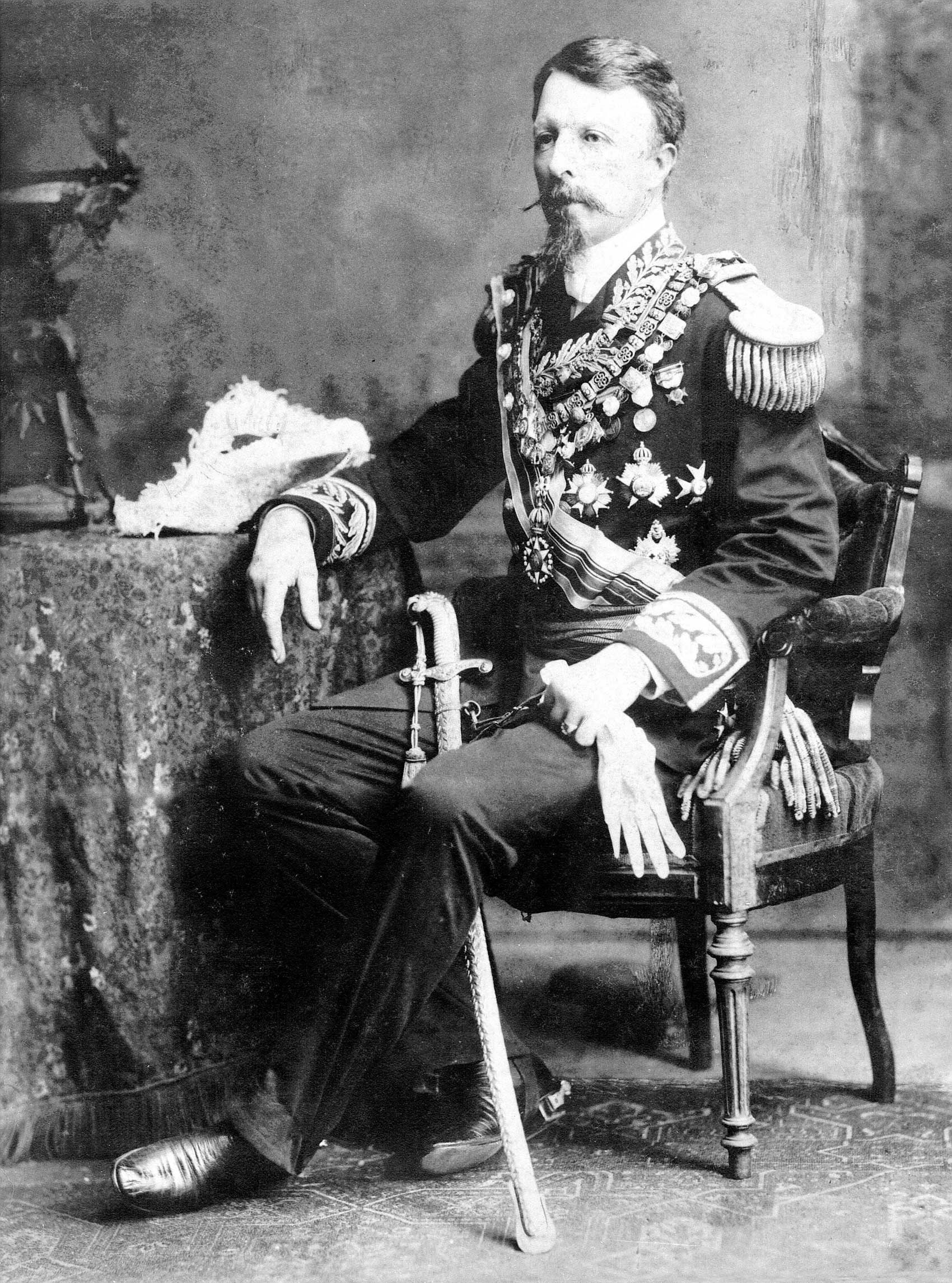 Prince Gaston, Count of Eu (1842-1922) or Dom Gastão de Orleães, Marshal of the Army